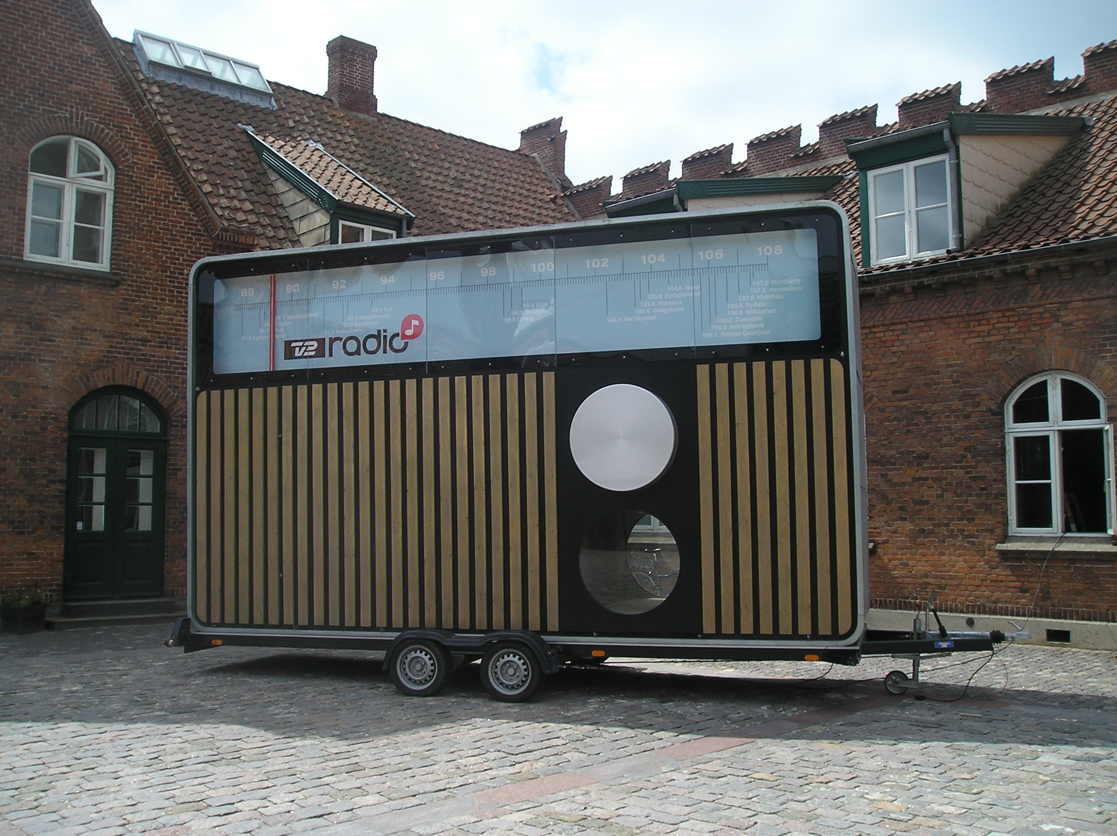 Trailer formed as gigant radio announcing for danish TV 2 Radio.